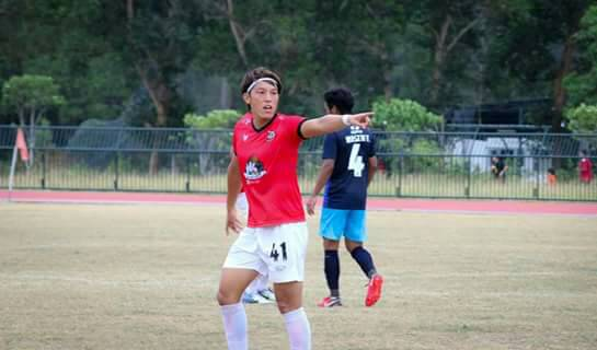 Daiki Konomura T3League match